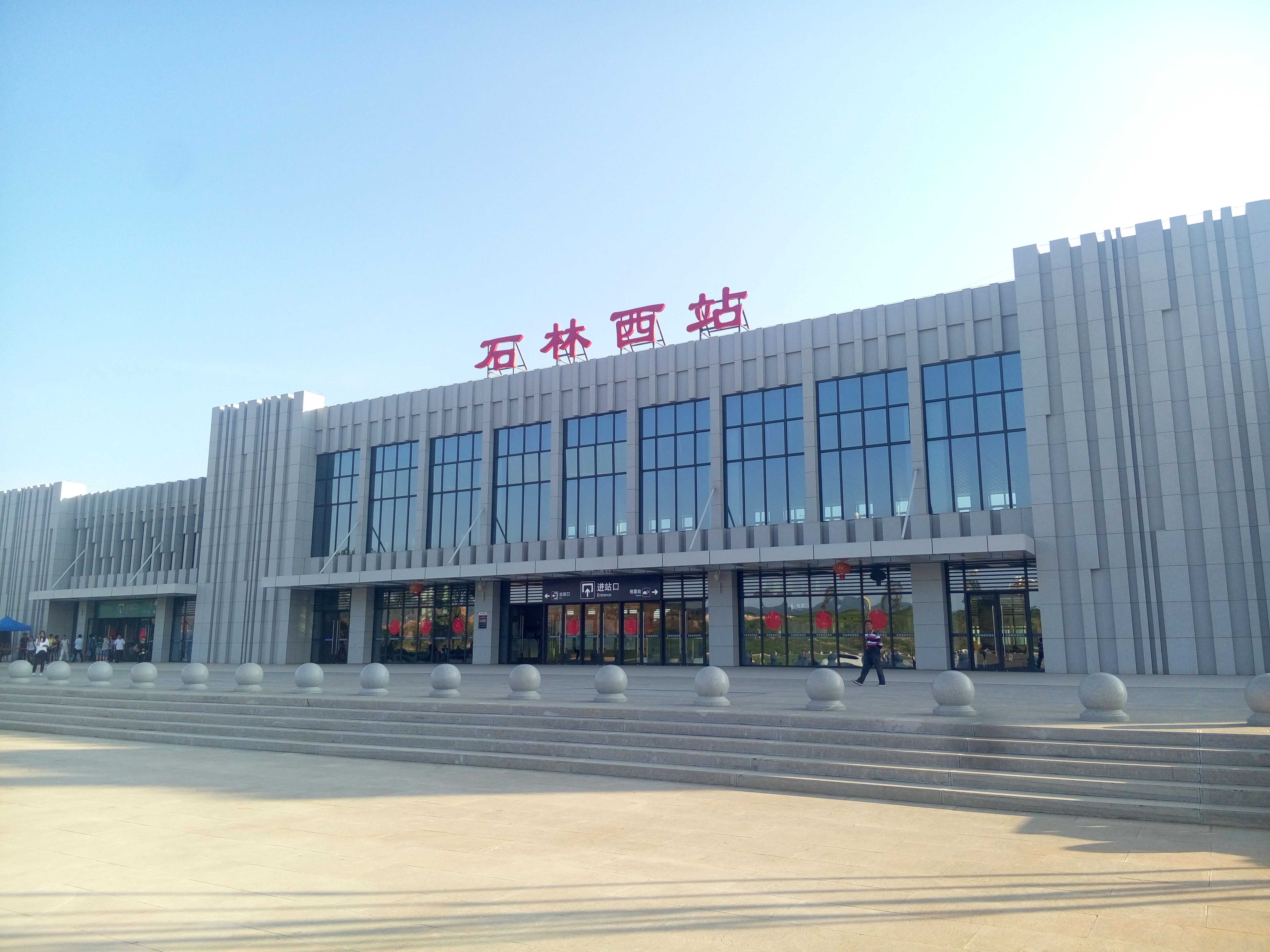 Shilinxi Railway Station (Shilin High Speed Rail Station)